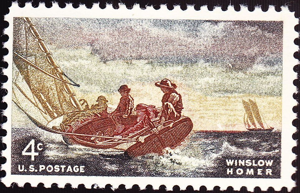 US Postage stamp, Winslow Homer commemorative issue of 1962, 4c